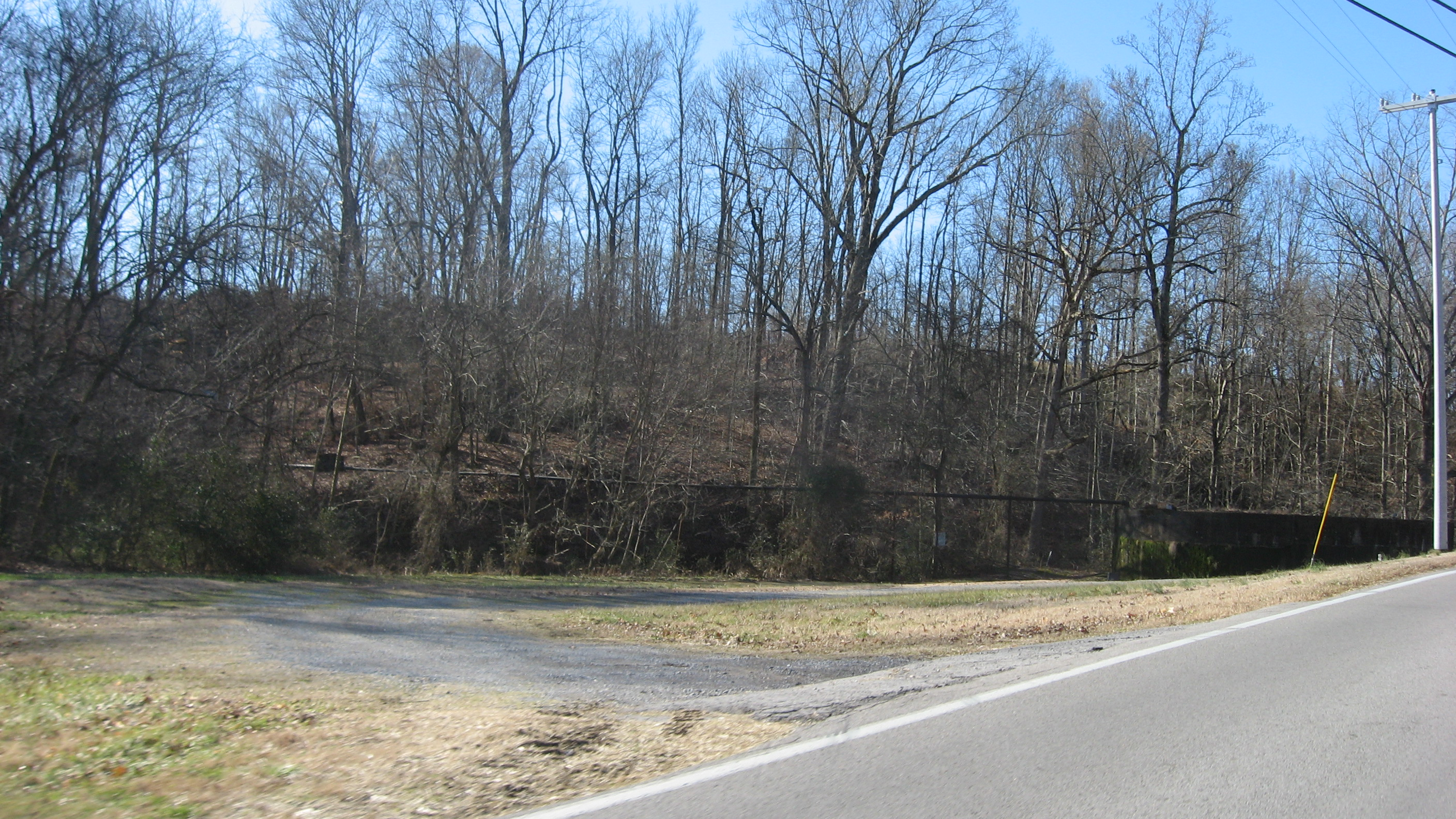 Overview of open land at the site of the Nelson's Greenbrier Distillery (largely destroyed long ago), located off the southern side of Main Street west of Greenbrier Cemetery Road and east of Greenbrier in Robertson County, Tennessee, United States. The site of the distillery is listed on the National Register of Historic Places.